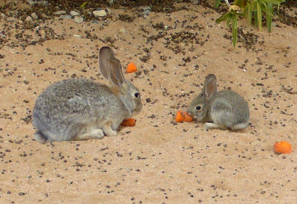 Mother and juvenile desert cottontails (Sylvilagus audubonii) enjoying a carrot dinner